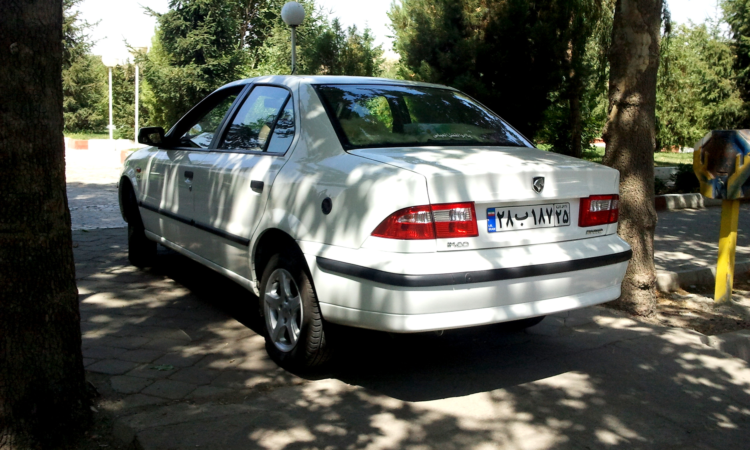 Samand white